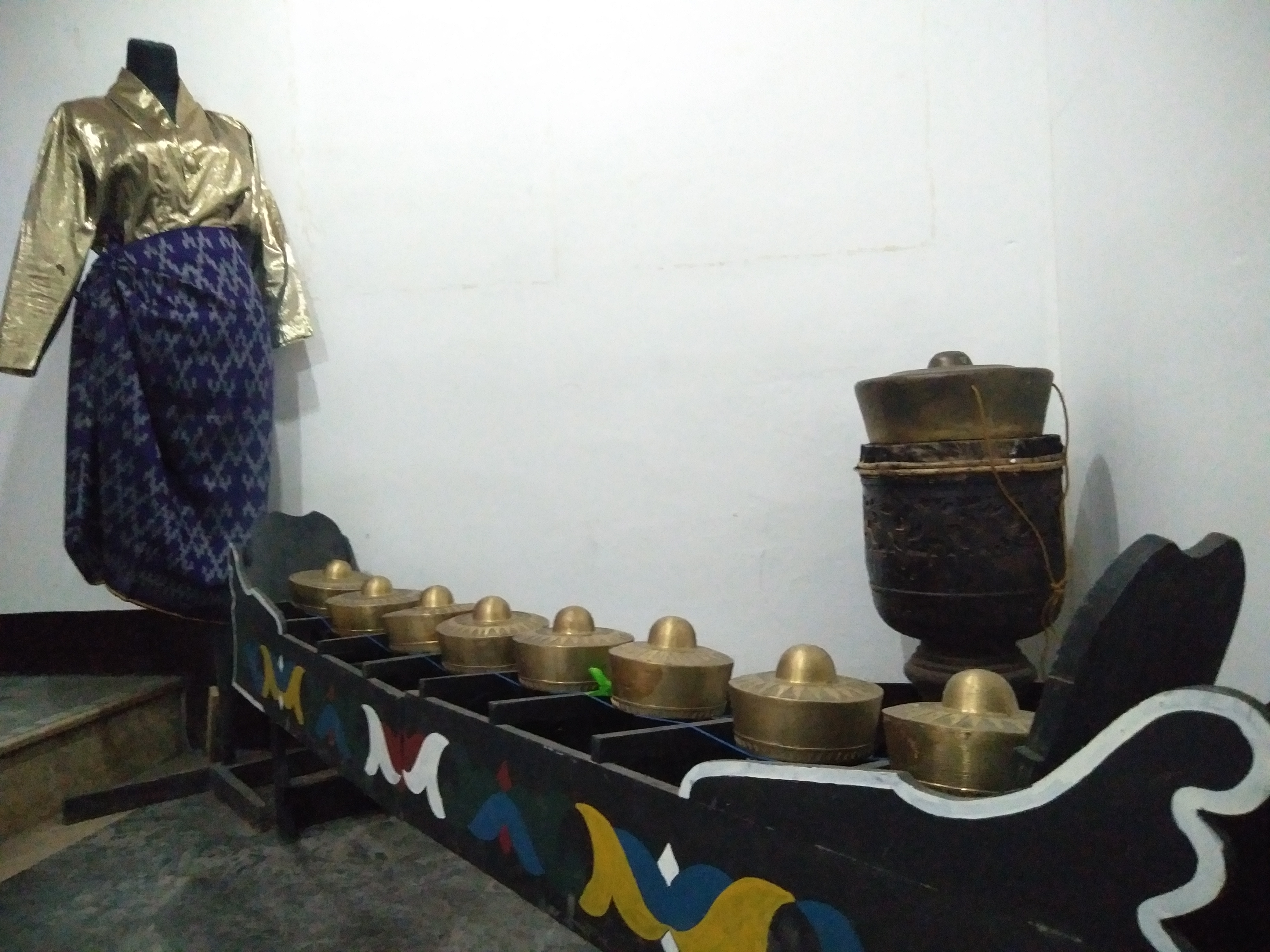 Cotabato City Hall Museum Exhibit 5